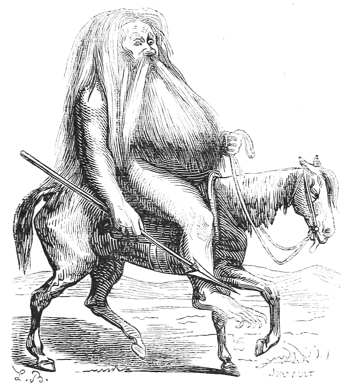 The demon Furcas from Collin de Plancy's Dictionnaire Infernal, 6th edition (1863)